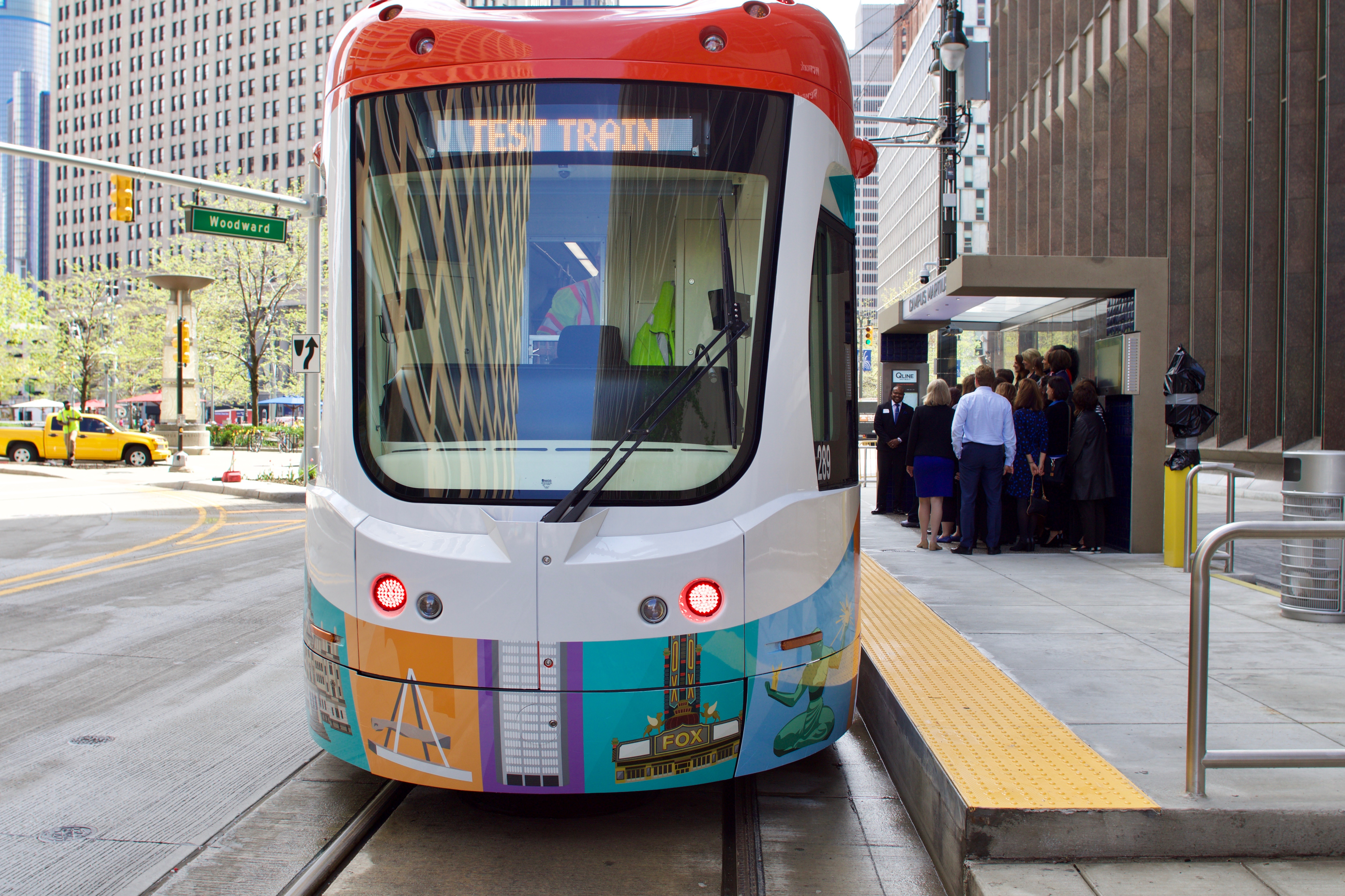 Test train at the Campus Martius station in May 2017, eleven days before opening of QLine